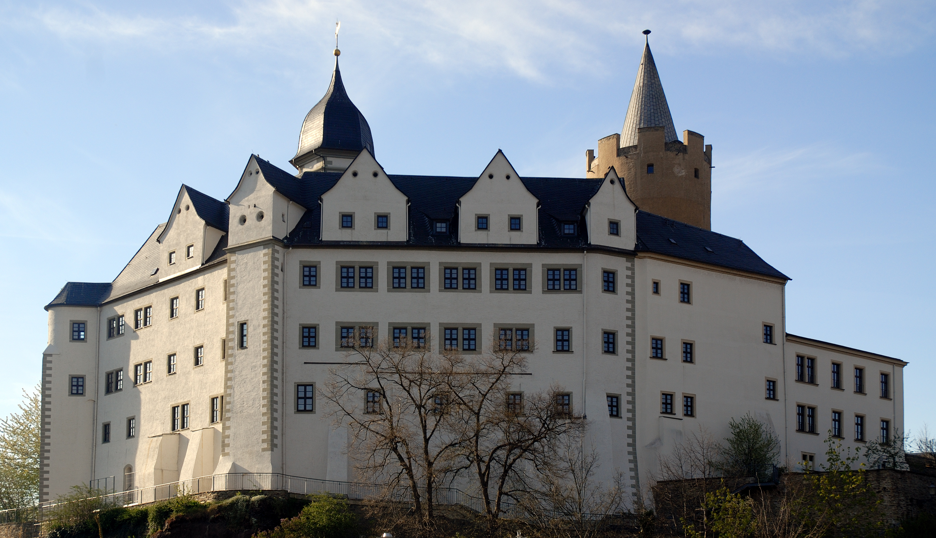 This image shows the castle Wildeck in Zschopau, Germany seen from south east.